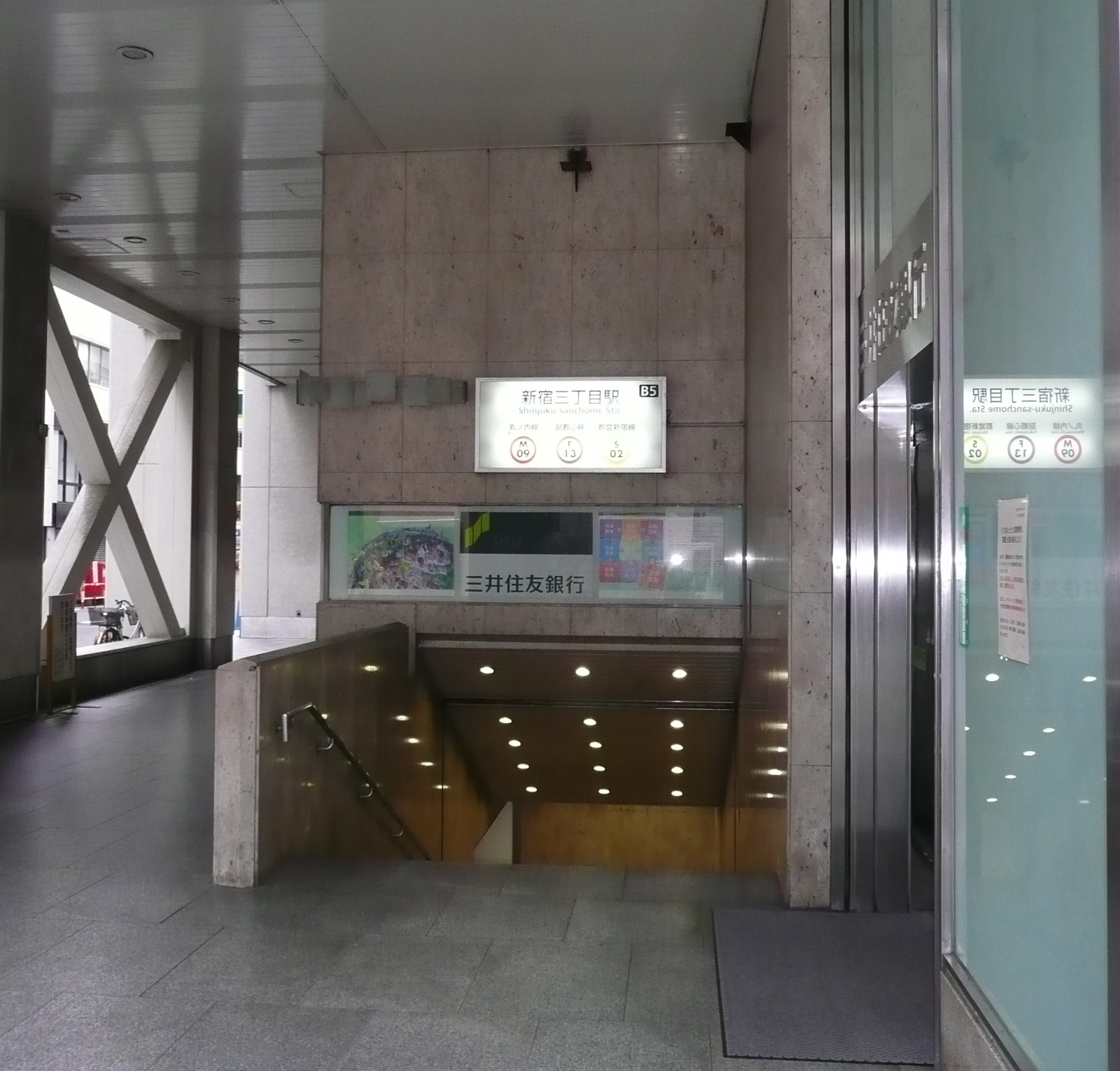 Entrance B5 to Shinjuku-sanchome Station in Tokyo